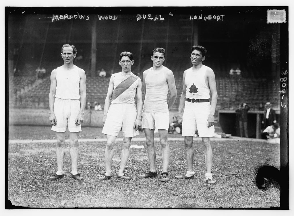 Bain News Service,, publisher. A. Meadows - Abbie E. Wood - Bill Queal - Tom Longboat [between ca. 1910 and ca. 1915] 1 negative : glass ; 5 x 7 in. or smaller. Notes: Title from unverified data provided by the Bain News Service on the negatives or caption cards. Forms part of: George Grantham Bain Collection (Library of Congress). Format: Glass negatives. Repository: Library of Congress, Prints and Photographs Division, Washington, D.C. 20540 USA, General information about the Bain Collection is available at Persistent URL: Call Number: LC-B2- 2809-5